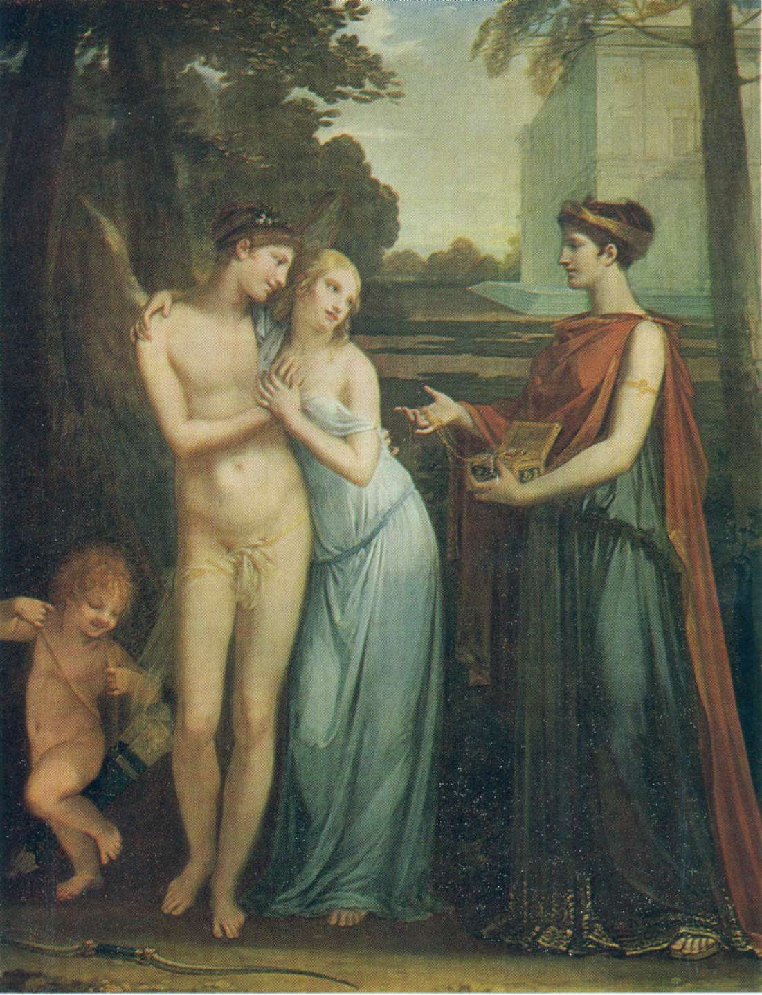 Pierre-Paul Prud'hon, Marie-Françoise Constance Mayer-Lamartinière